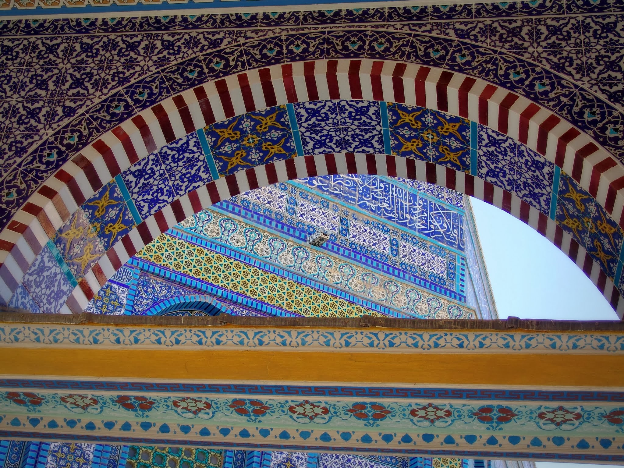 Dome of the Chain (foreground) and Dome of the Rock (background), detail